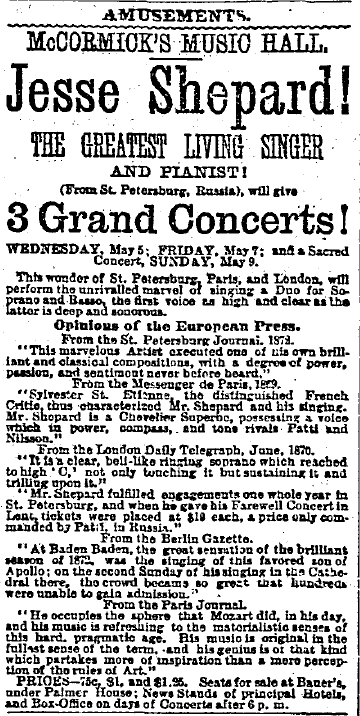 Ad for the Pianist Jesse Shepard aka Francis Grierson (1848-1927)